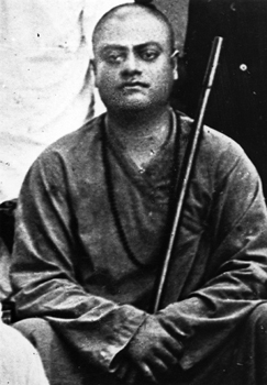 Swami Vivekananda in Chennai February 1897. This is a cropped version of File:Swami Vivekananda Chennai 1897.jpg